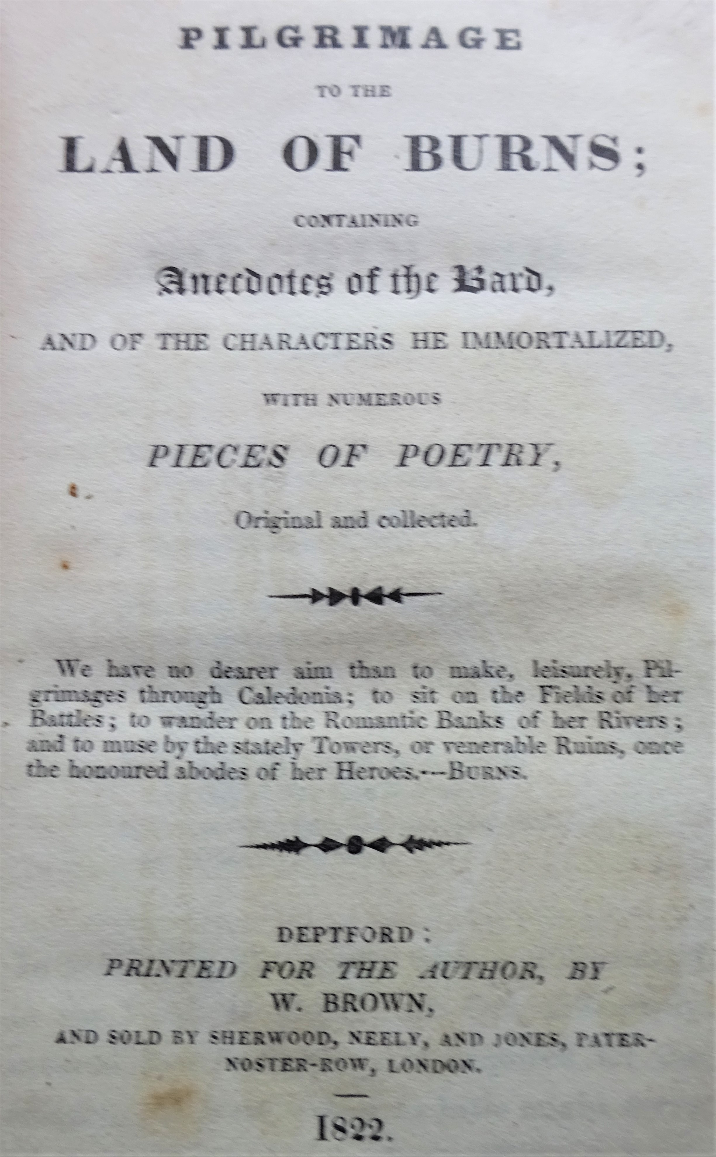 The Title page of 'A Pilgrimage to the Land of Burns'. 1820. Anonymous but know to be by Hew Ainslie.